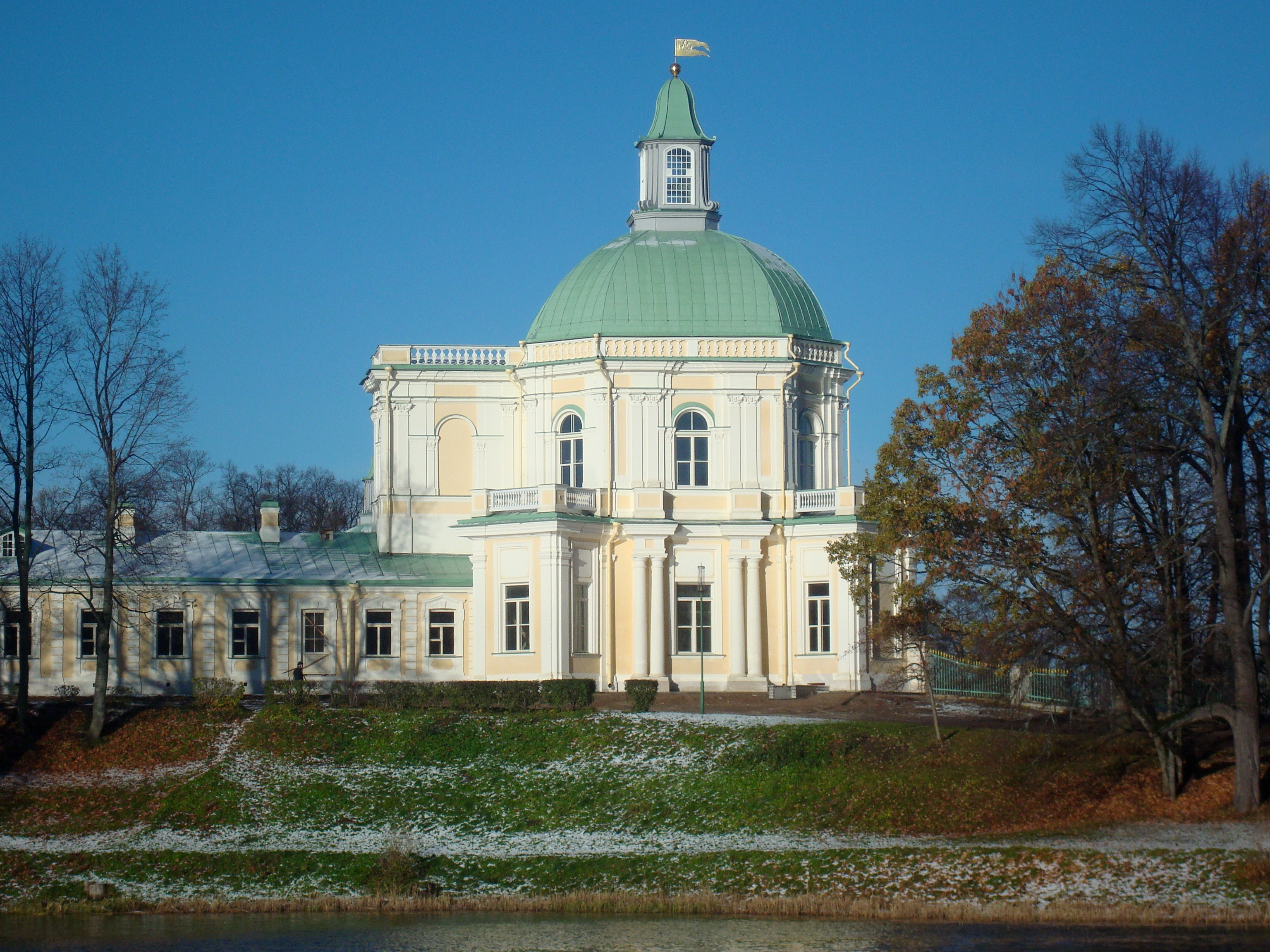 The Japanese pavilion of the Grand Menshikov Palace in Oranienbaum, Russia